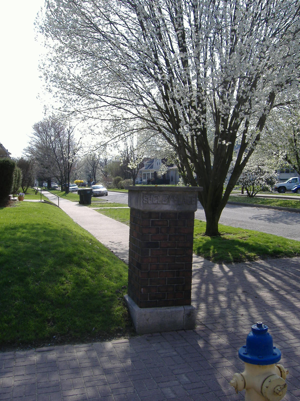 Brick column denoting entrance to Shelby Place Historic District in New Albany, Indiana.